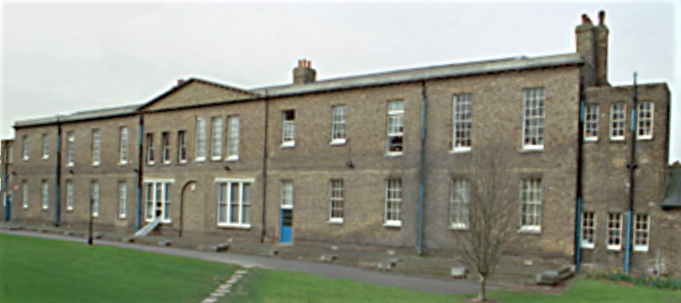 Block built within Fort Pitt as hospital wards during the Crimean War. Now used as classrooms by Fort Pitt Grammar School.